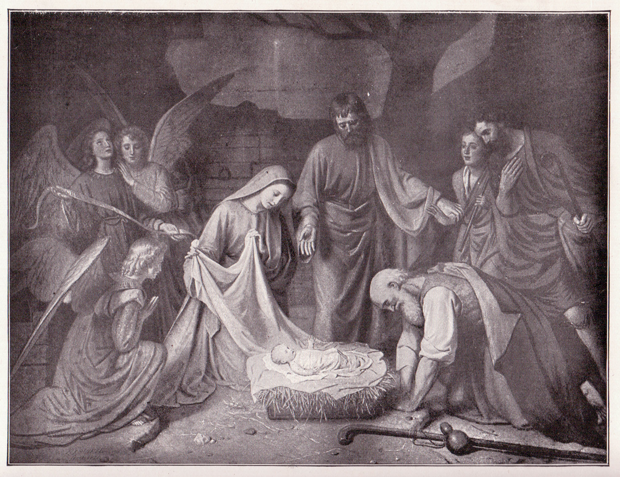 This illustration appears on page 434 of "The Harmsworth Monthly Pictorial Magazine" Volume 1 1898-9, published by Harmsworth Bros., Limited, London. The illustration is titled "The First Christmas" and it is from the painting by H.J.Sinkel. The photo was provided by the Berlin Photographic Co. Flickr data on 2011-08-17: Tags: copyright free creative commons flickr free freebie illustrated illustration pre-1923 public domain upload vintage Christmas holiday images book old Madonna Jesus Mary story Christian bible The First Christmas, H.J. Sinkel License: CC BY 2.0 User: perpetualplum Sue Clark